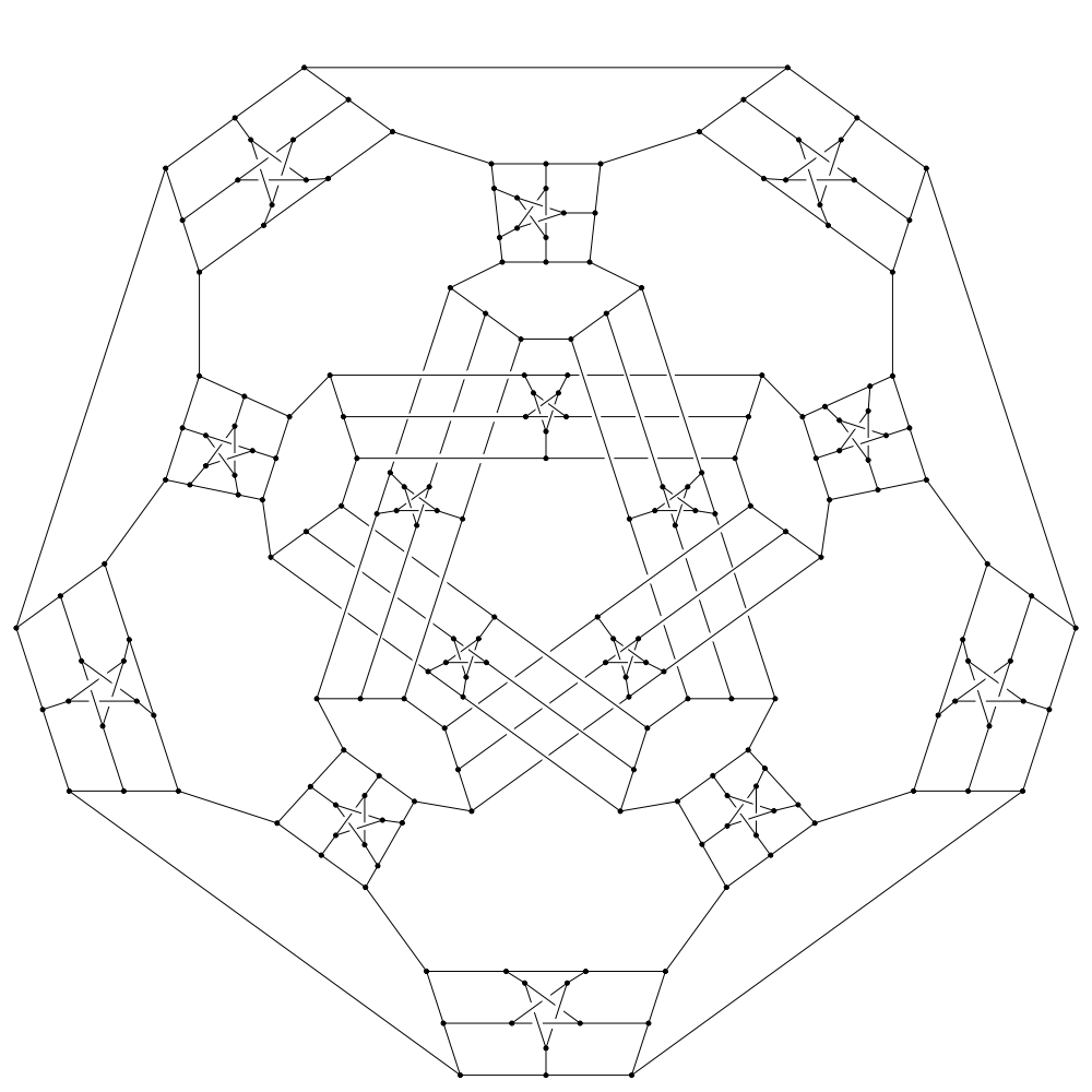 This is an image of a Descartes' Snark, a graph of a type discovered by Bill Tutte in 1948.